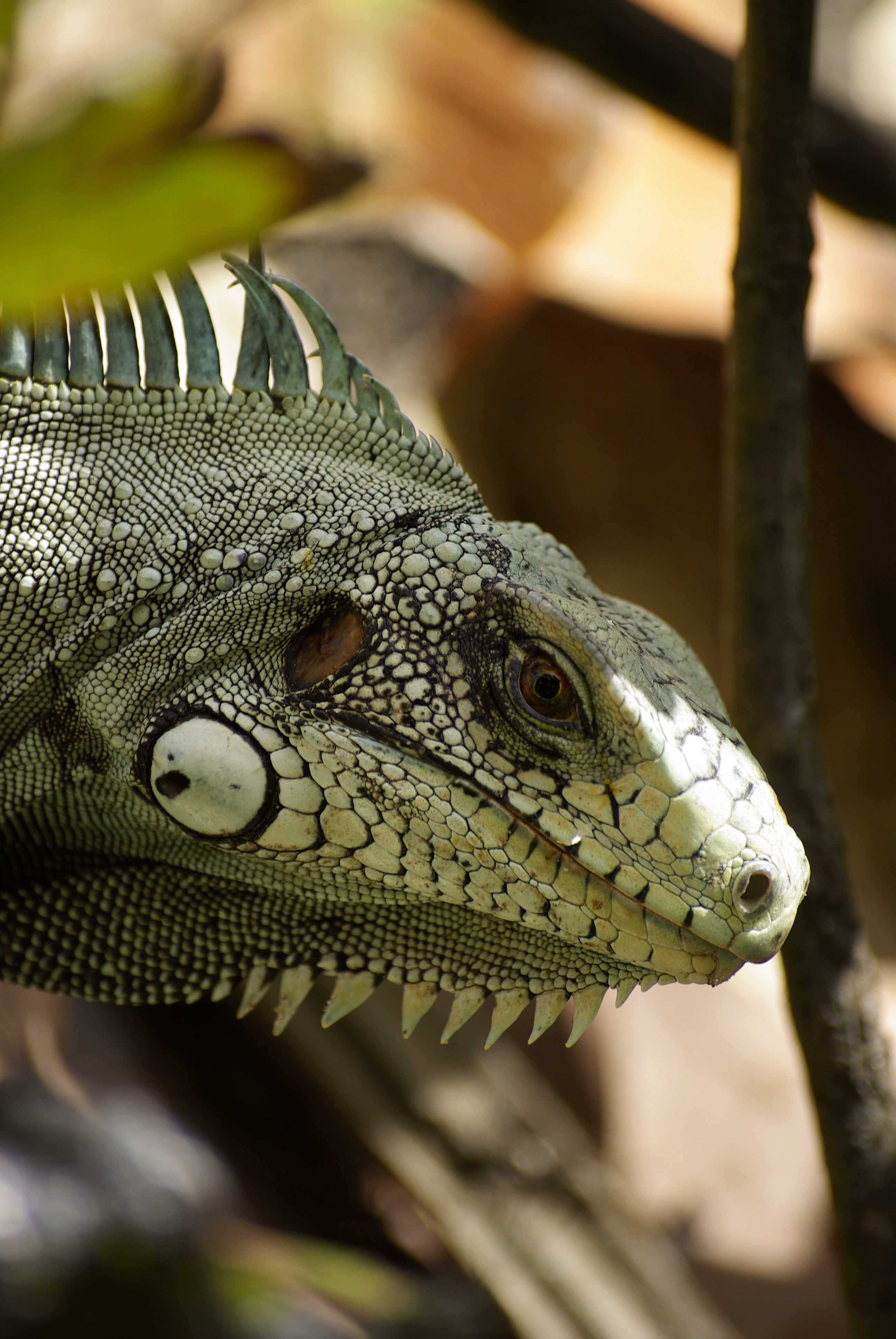 Common iguana (Iguana iguana) on the island of Grande Terre in the archipelago of Guadeloupe (French Caribbean Indies)